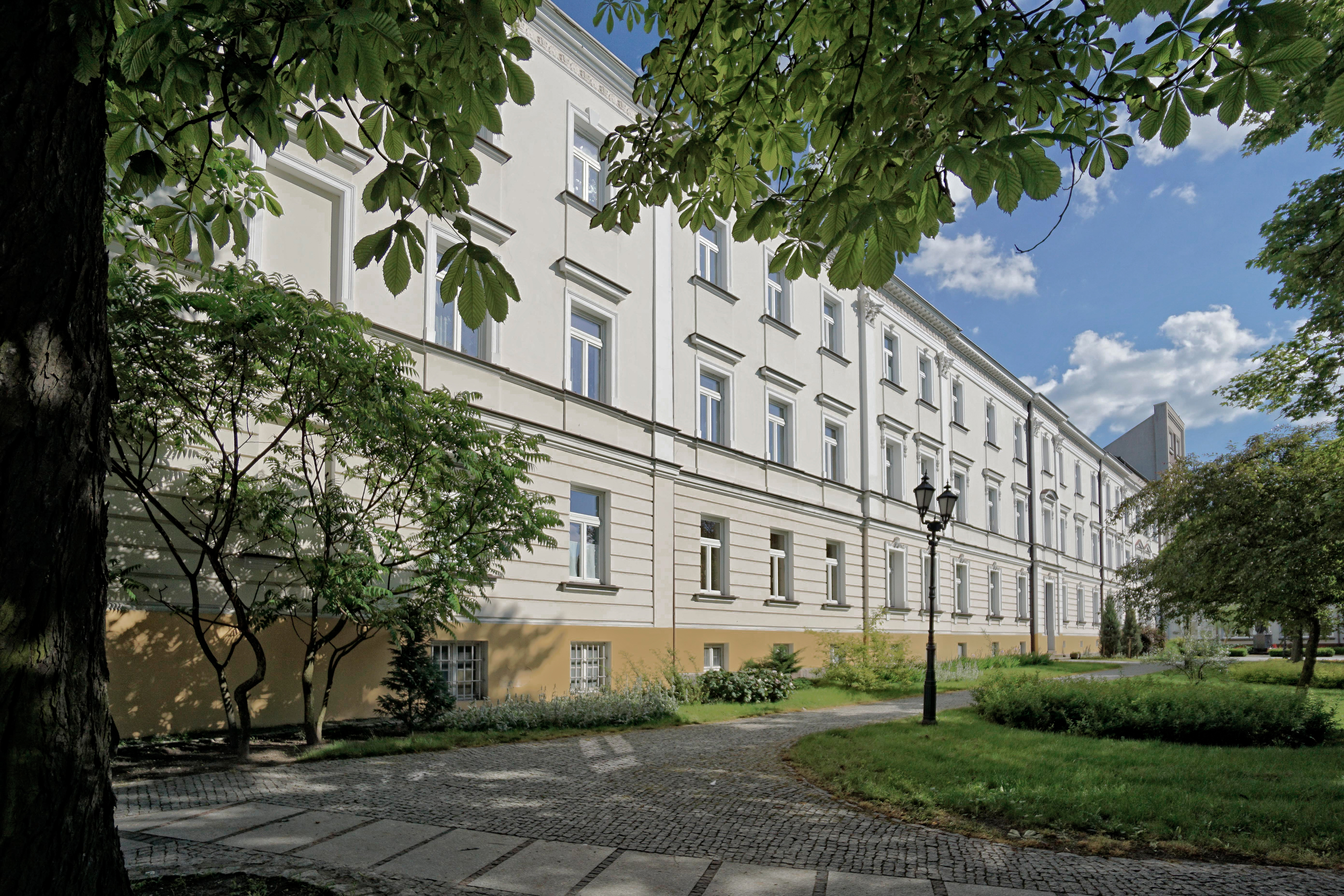 Former Governor's Palace, now Seminary Łomża (Poland)